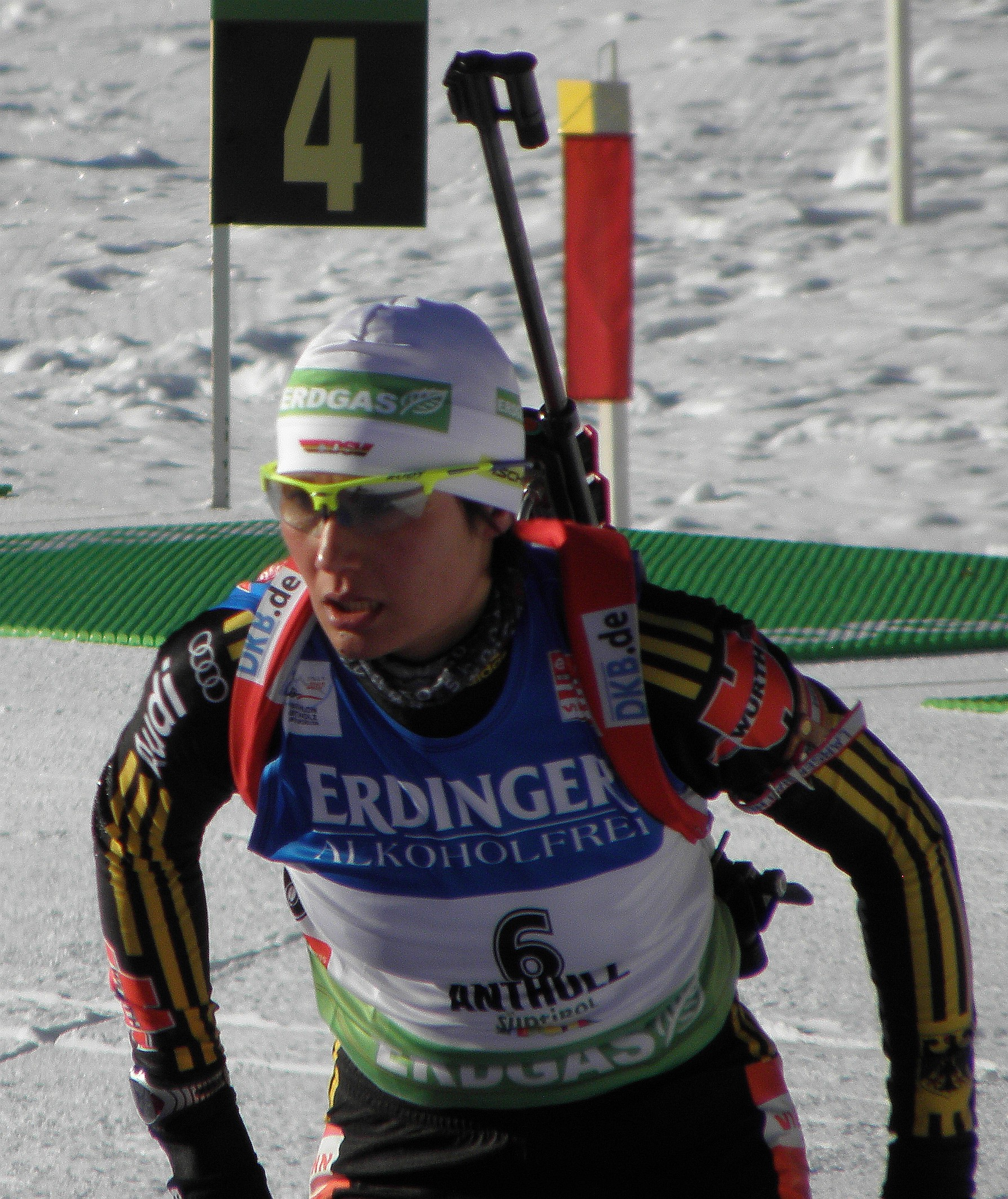 Simone Hauswald in Antholz, 20-01-2010